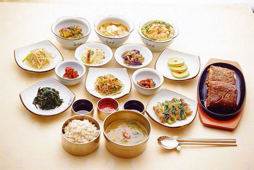 Korean meal table